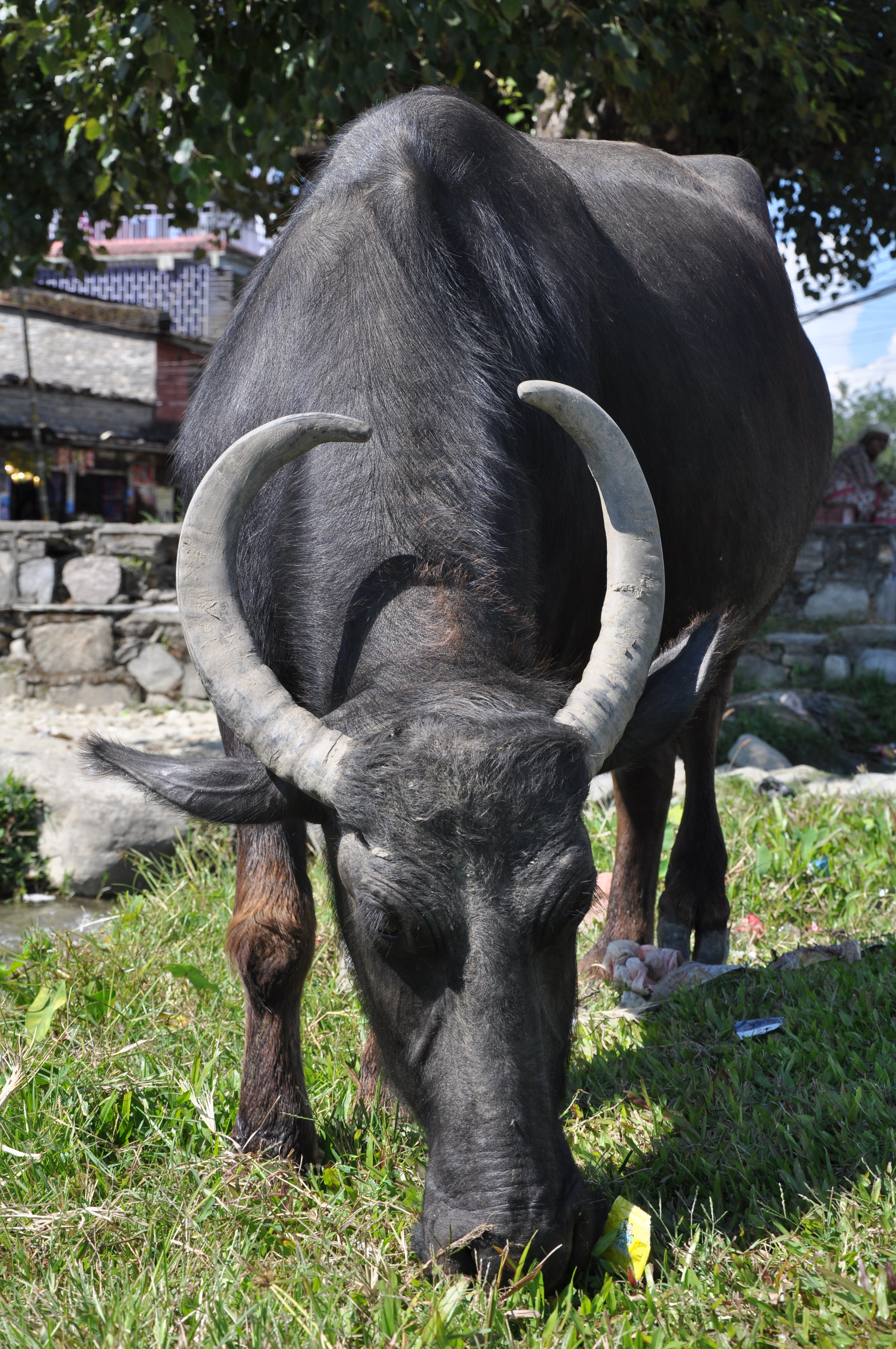 Water Buffalo near Pokhara, Nepal.